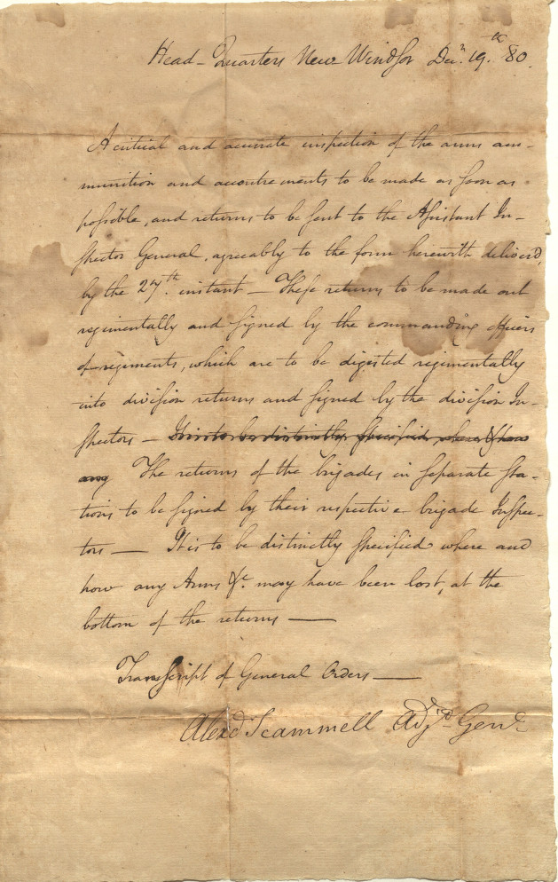 Transcript of General Orders from Colonel (Adjutant General) Alexander Scammell on December 19, 1780. Sent from Headquarters in New Windsor.